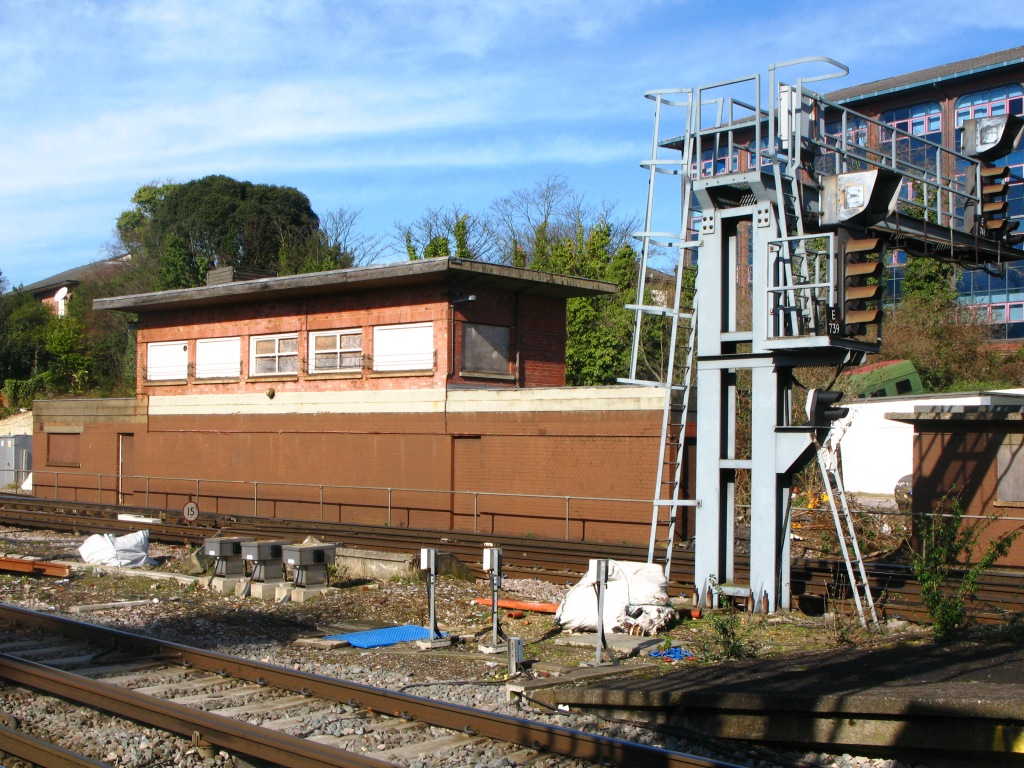 The disused signal box at the west end of Southampton Central railway station in Hampshire, England.